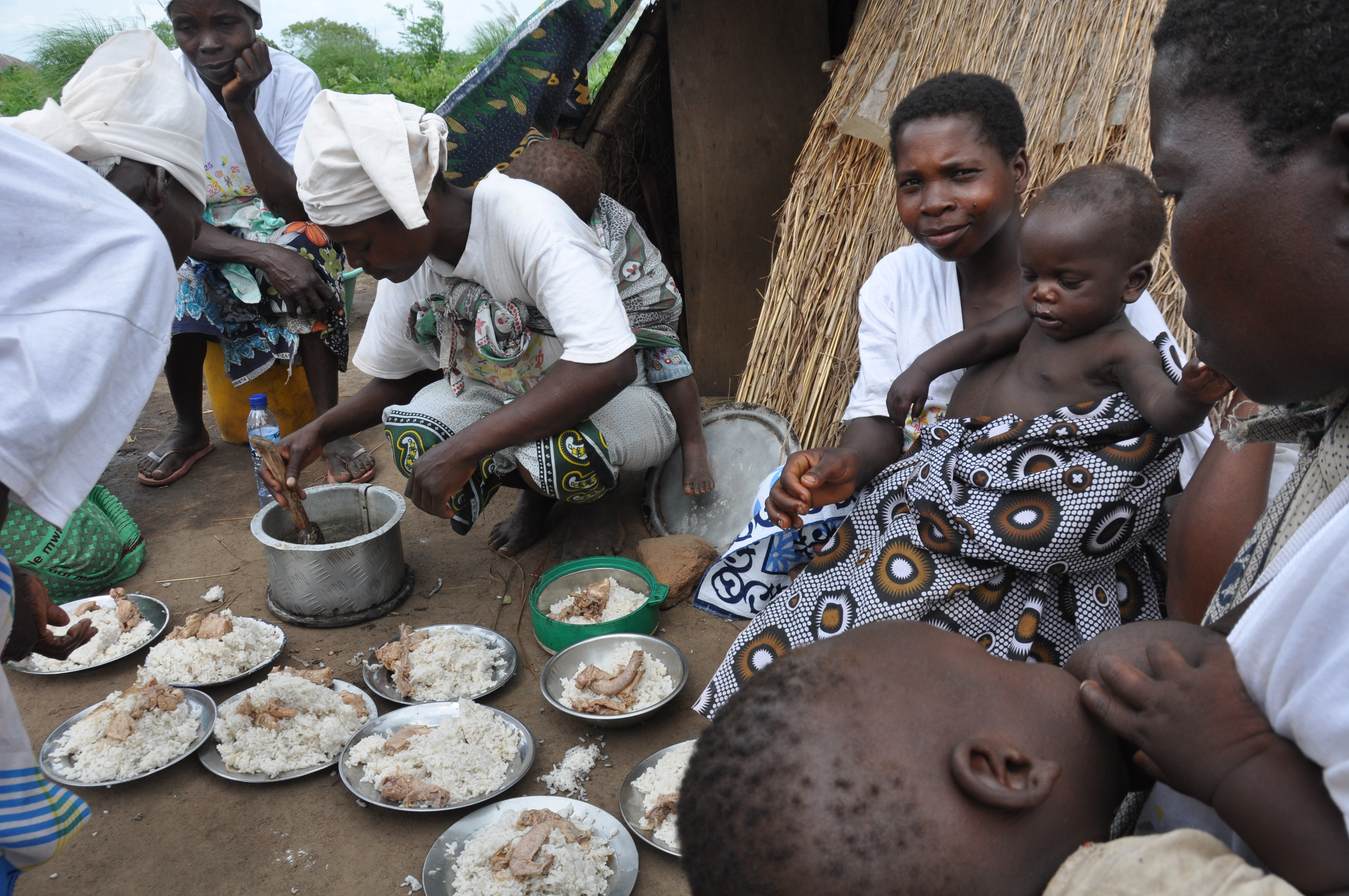 The wife of Davane Mesa Paulo, center, with child, and neighbors and family break for a meal in Morrumbala, Mozambique in January 2011. Photo by Bita Rodriguez